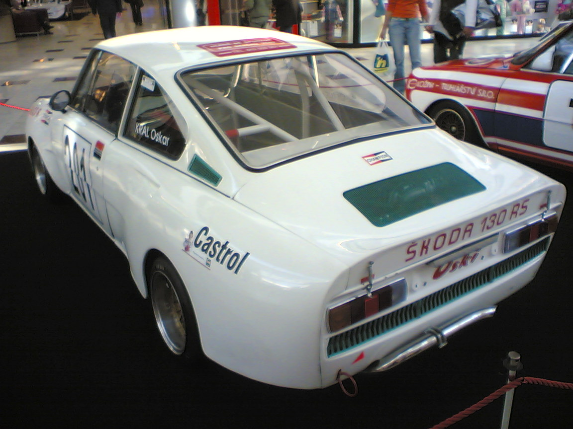 Škoda 130 RS (Vintage Skoda racers on display in a mall in Brno, Czech Republic)Vintage Skoda racing cars